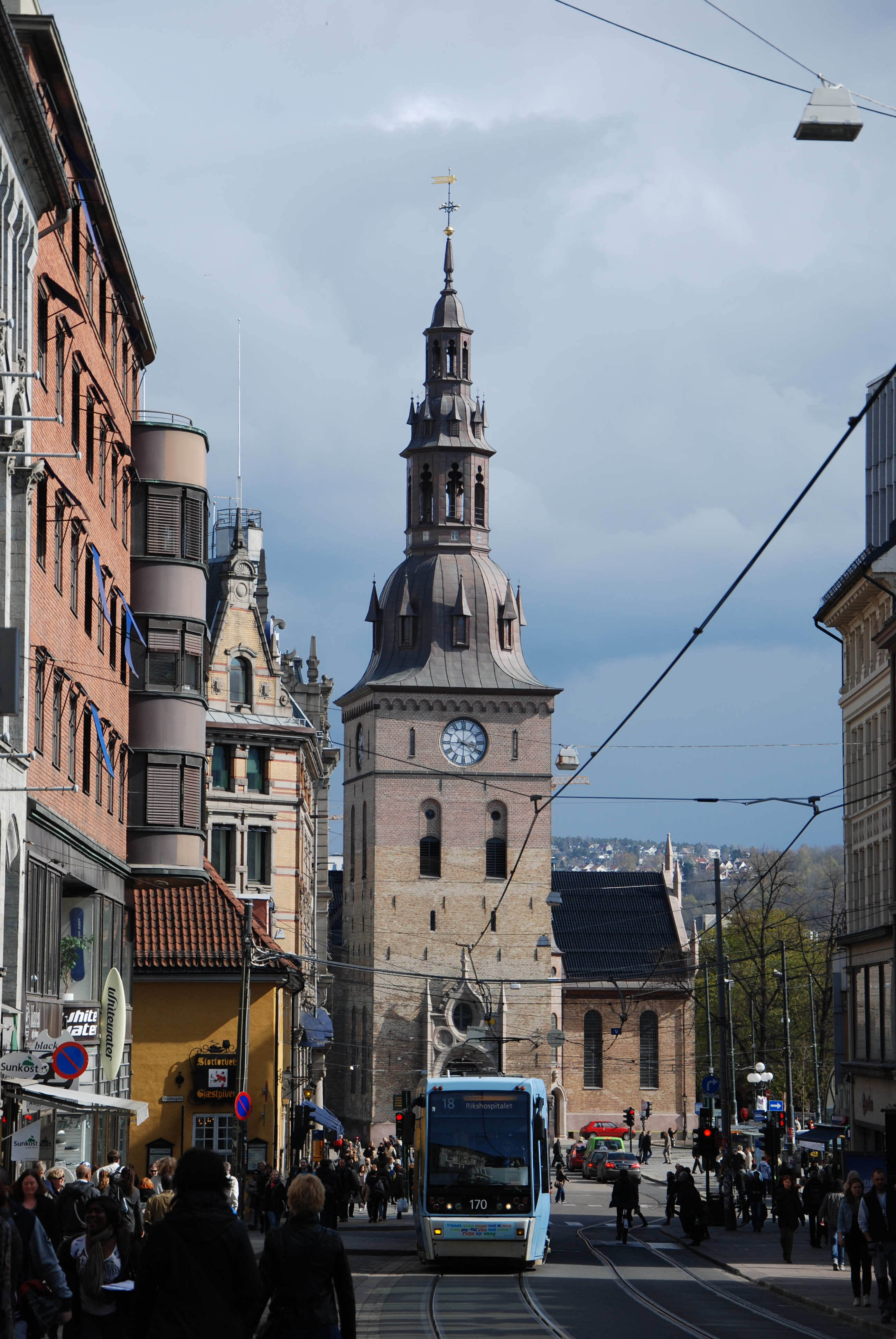 Oslo domkyrka sedd från Grensen